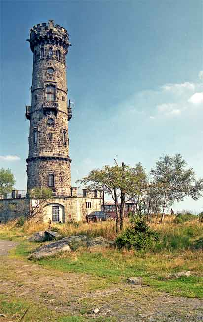 Watch tower on the Děčínský Sněžník.